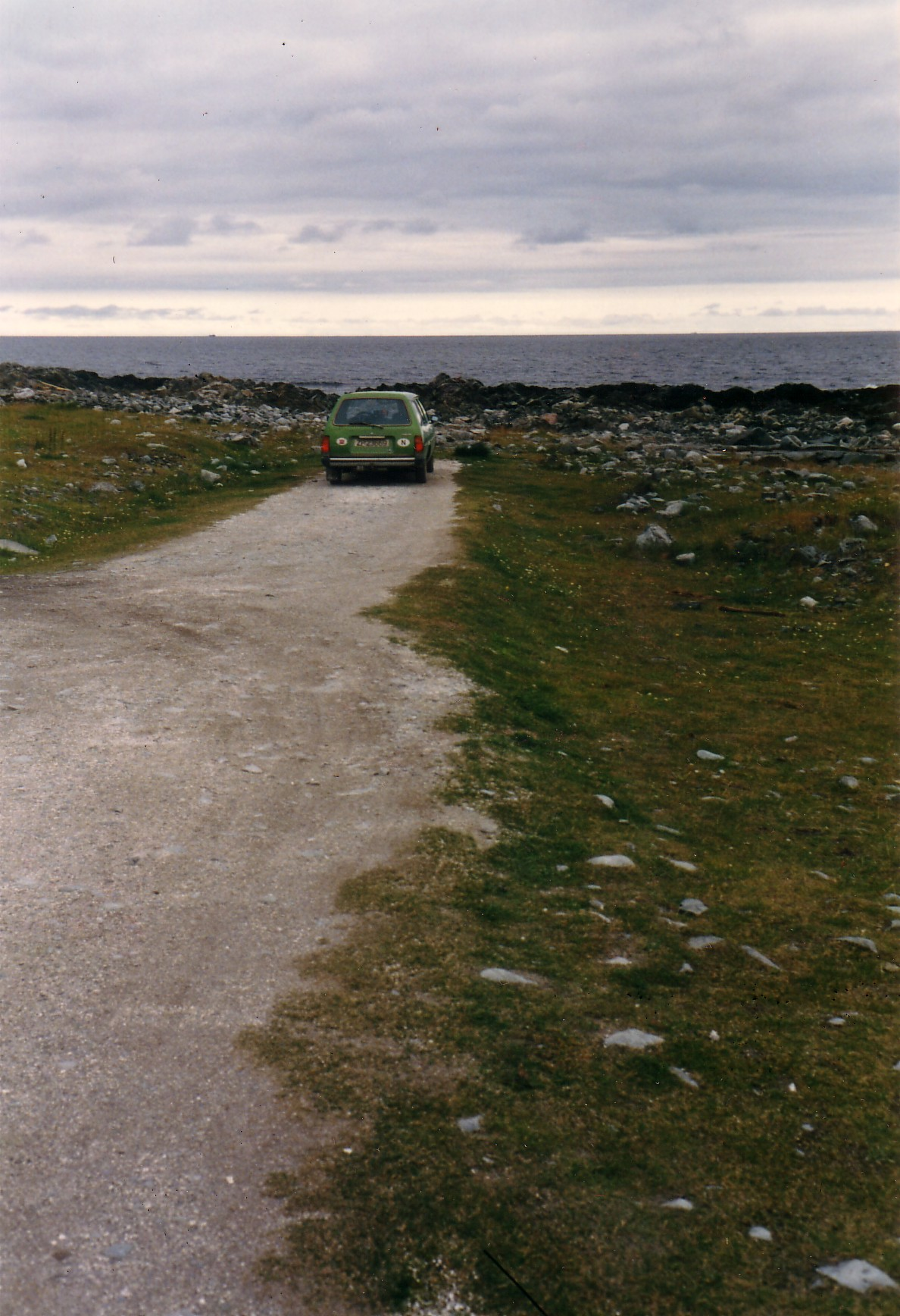 As far as you can drive east by car in North Norway. The road ends in the abandoned fishing village of Hamningberg, north of the city of Vardø